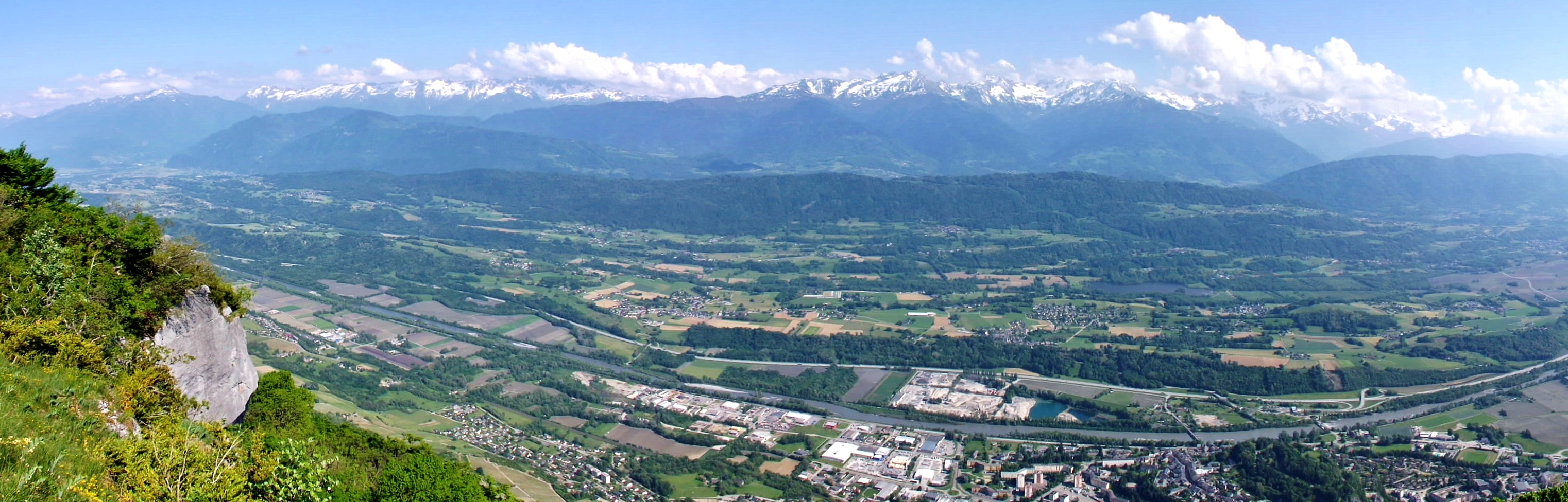 Panoramic sight, from the roche du Guet in the Bauges mountain range, of the Combe de Savoie broad valley with the Belledonne mountain range at the background, in Savoie, France.